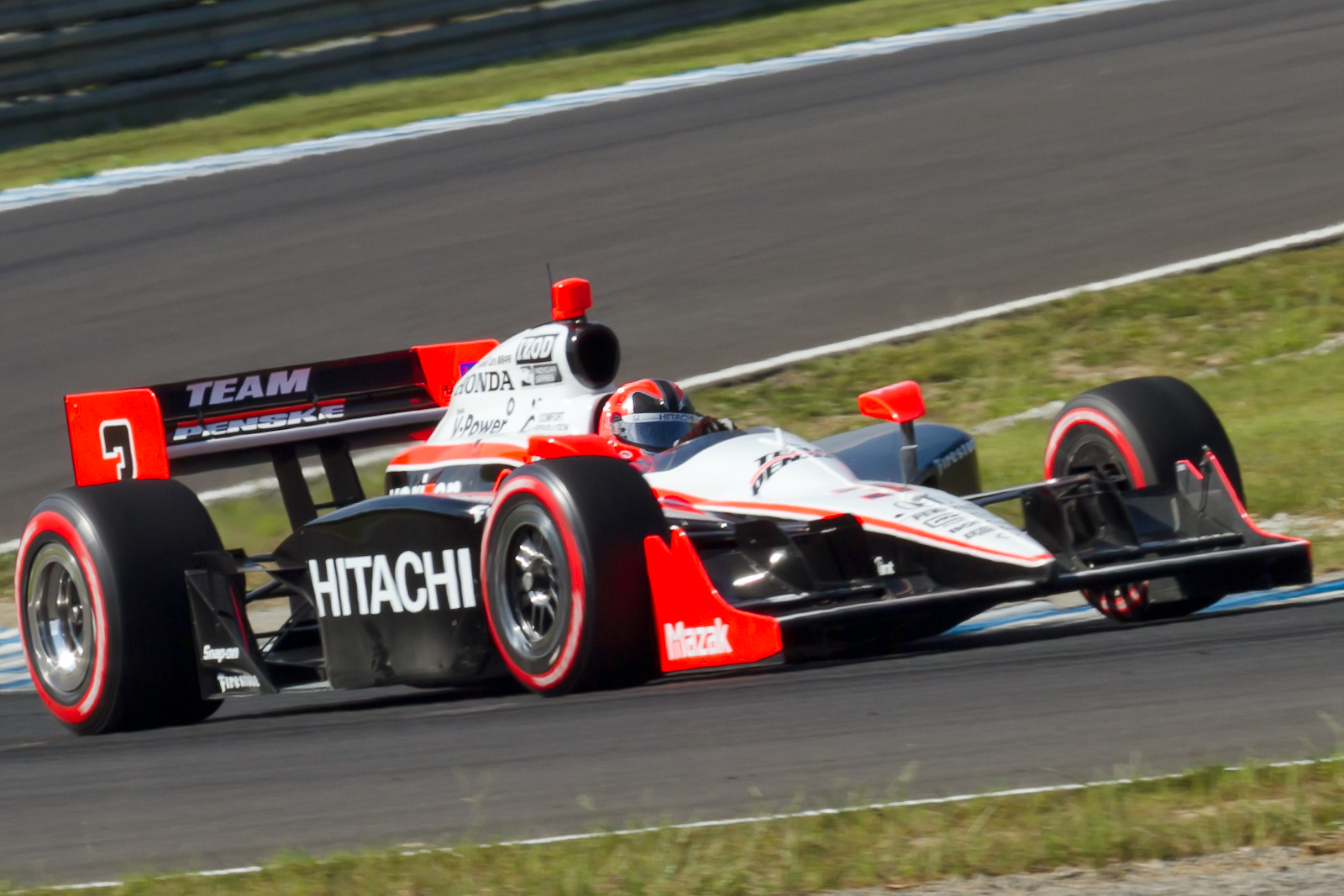 IndyCar Series 2011 Rd.15 Indy Japan 300: Hélio Castroneves (Team Penske)